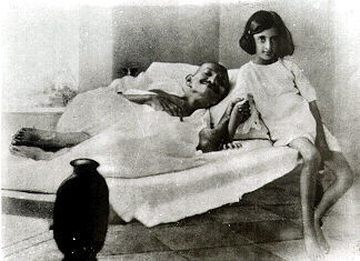 With six-year-old Indira Nehru (later to become a "Gandhi" through marriage) during his twenty-one-day fast undertaken at Delhi in 1924 as a penance for communal disturbances all over India